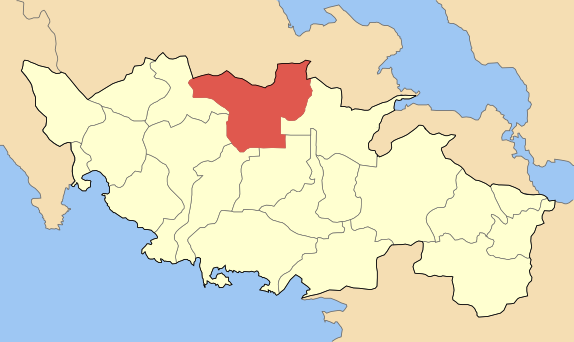 Locator map of Orhomenou municipality (Δήμος Ορχομενού) at Voiotias perfecture, Greece.